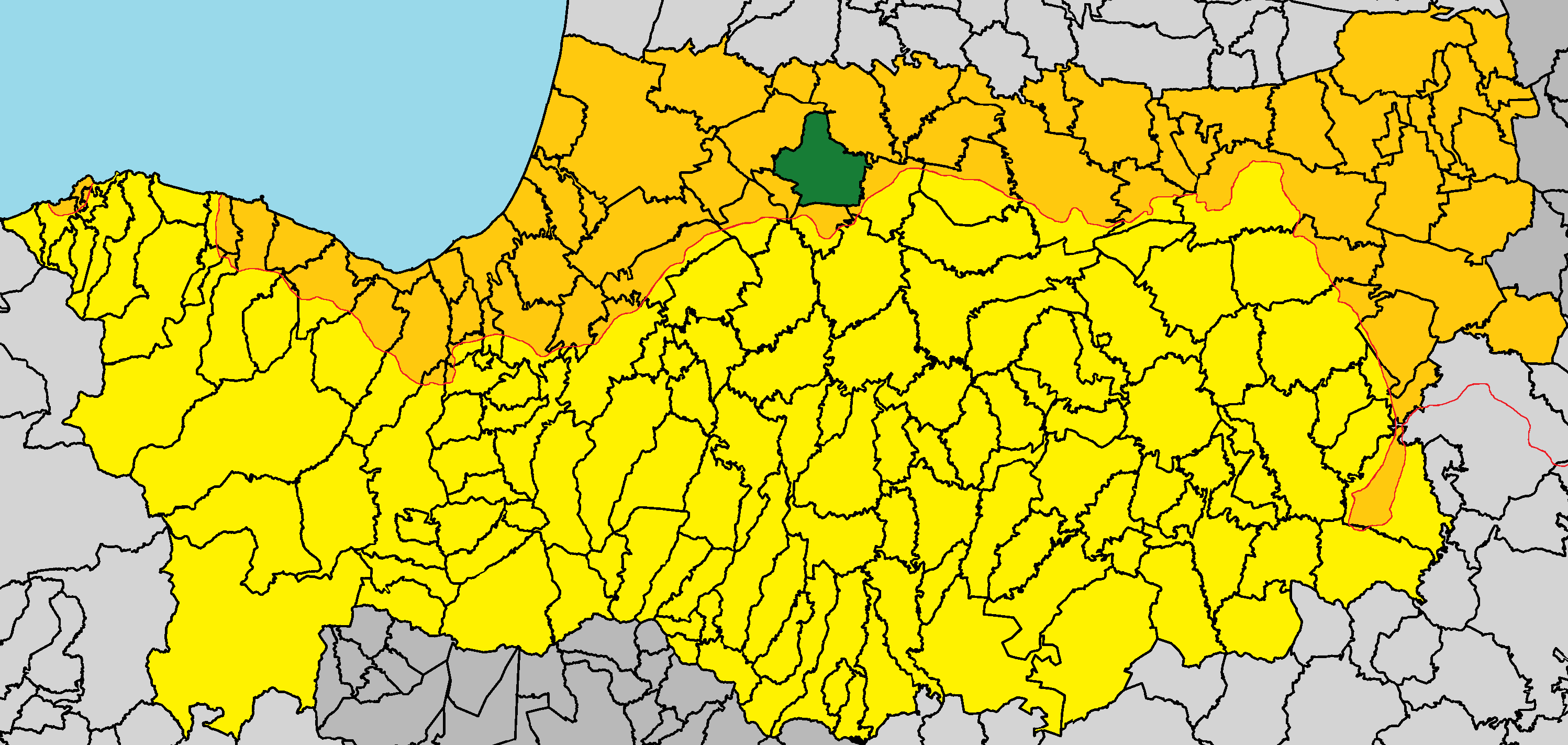 Fyllia in Nicosia District (de jure).